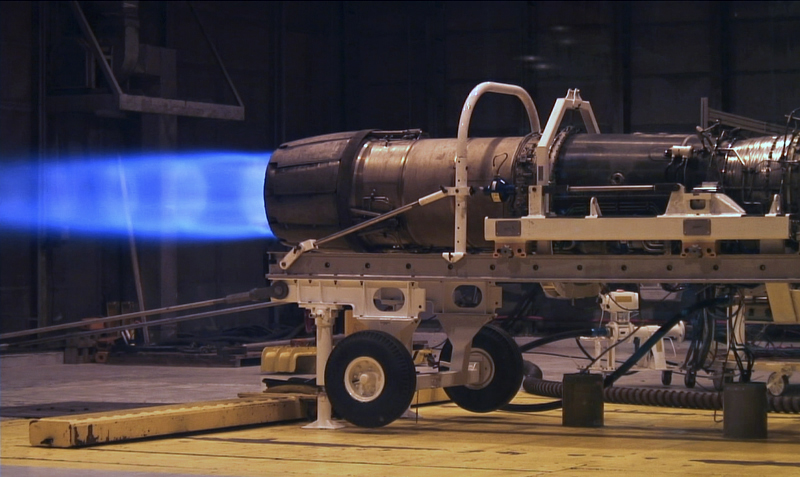 091013-N-2442S-001 PATUXENT RIVER, MD (Oct. 13, 2009) An F404 engine from an F/A-18 runs on biofuel in a Naval Air Systems Command test at the Aircraft Test and Evaluation Facility, Patuxent River, MD.